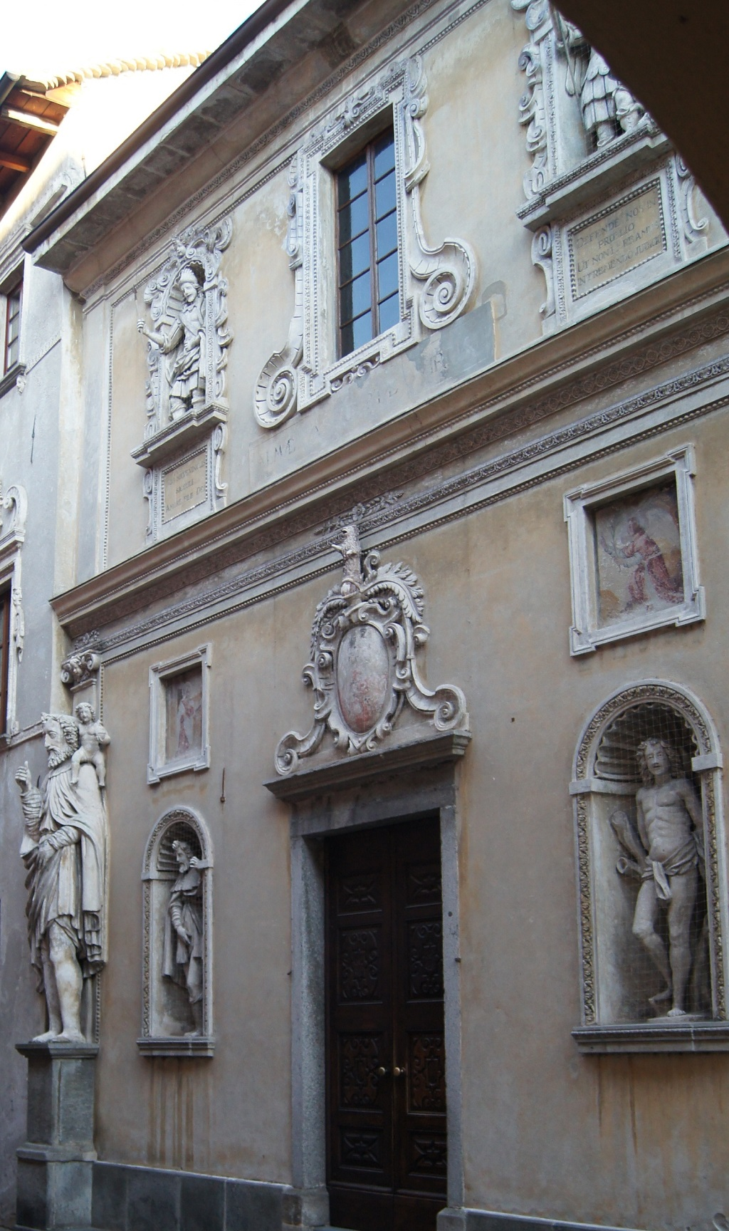 Church Santa Maria Assunta (Chiesa nuova) in Locarno, facade